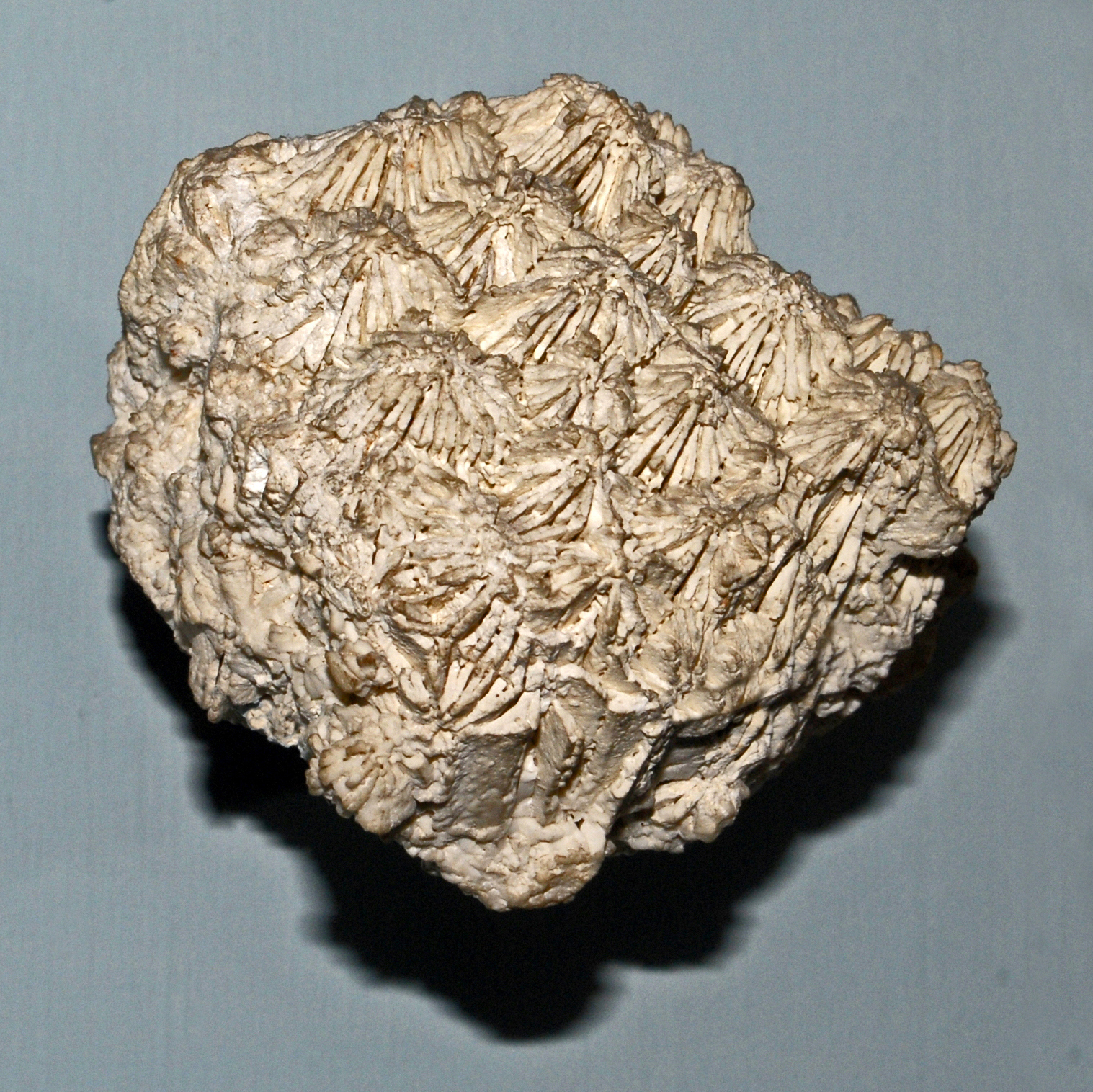 Fossil internal model of Favites from Miocene of Italy, on display at Museo Geologico G. Cappellini, Bologna